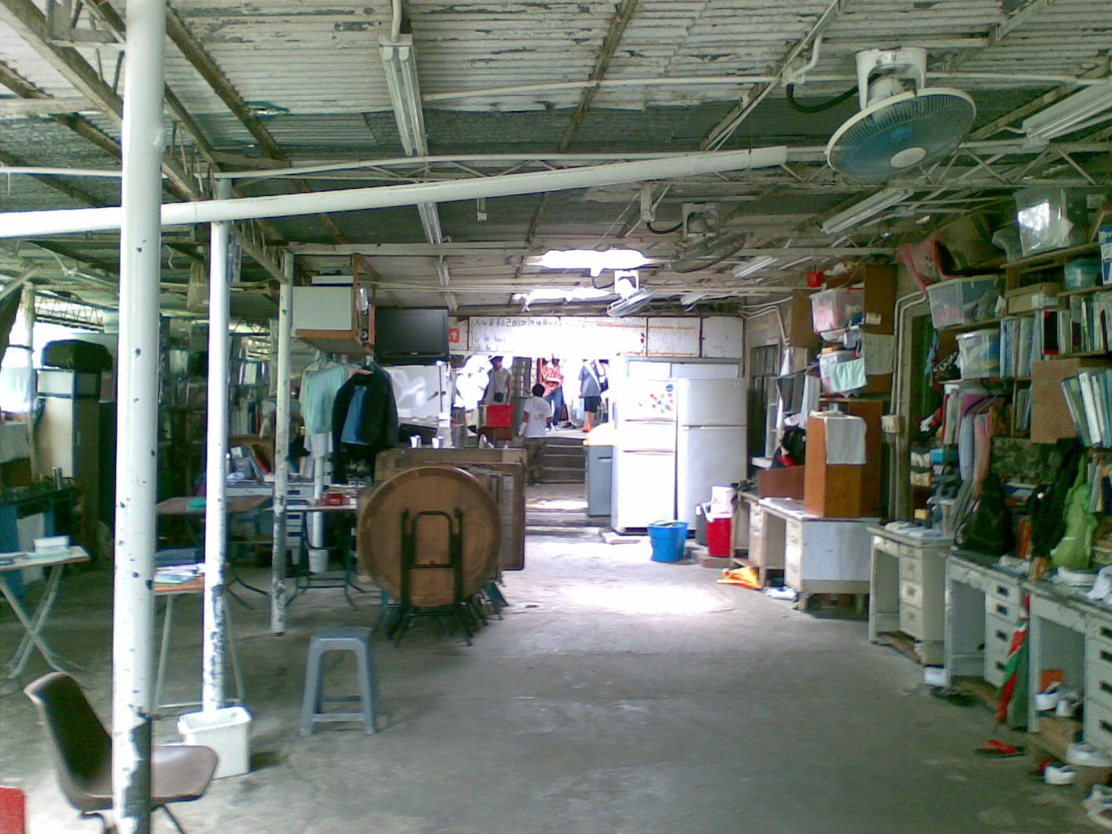 Interior of campus of Christian Zheng Sheng College, Hong Kong. It is converted from a pig farm.